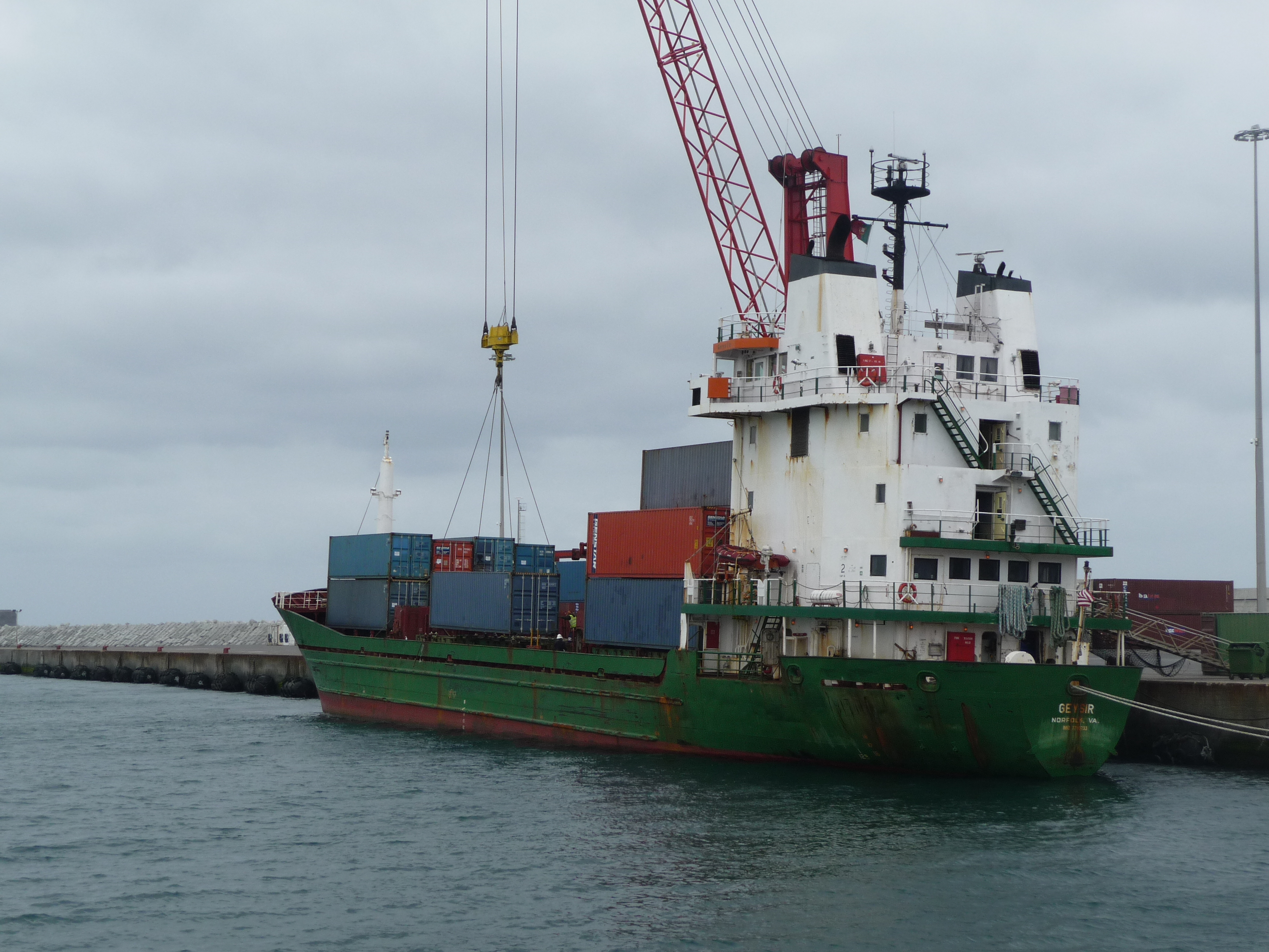 Cargo ship MV Geysir. IMO Number: 7710733 MMSI Number: 369819000 Callsign: WDD4592 Length: 273.8 ft Beam: 45ft